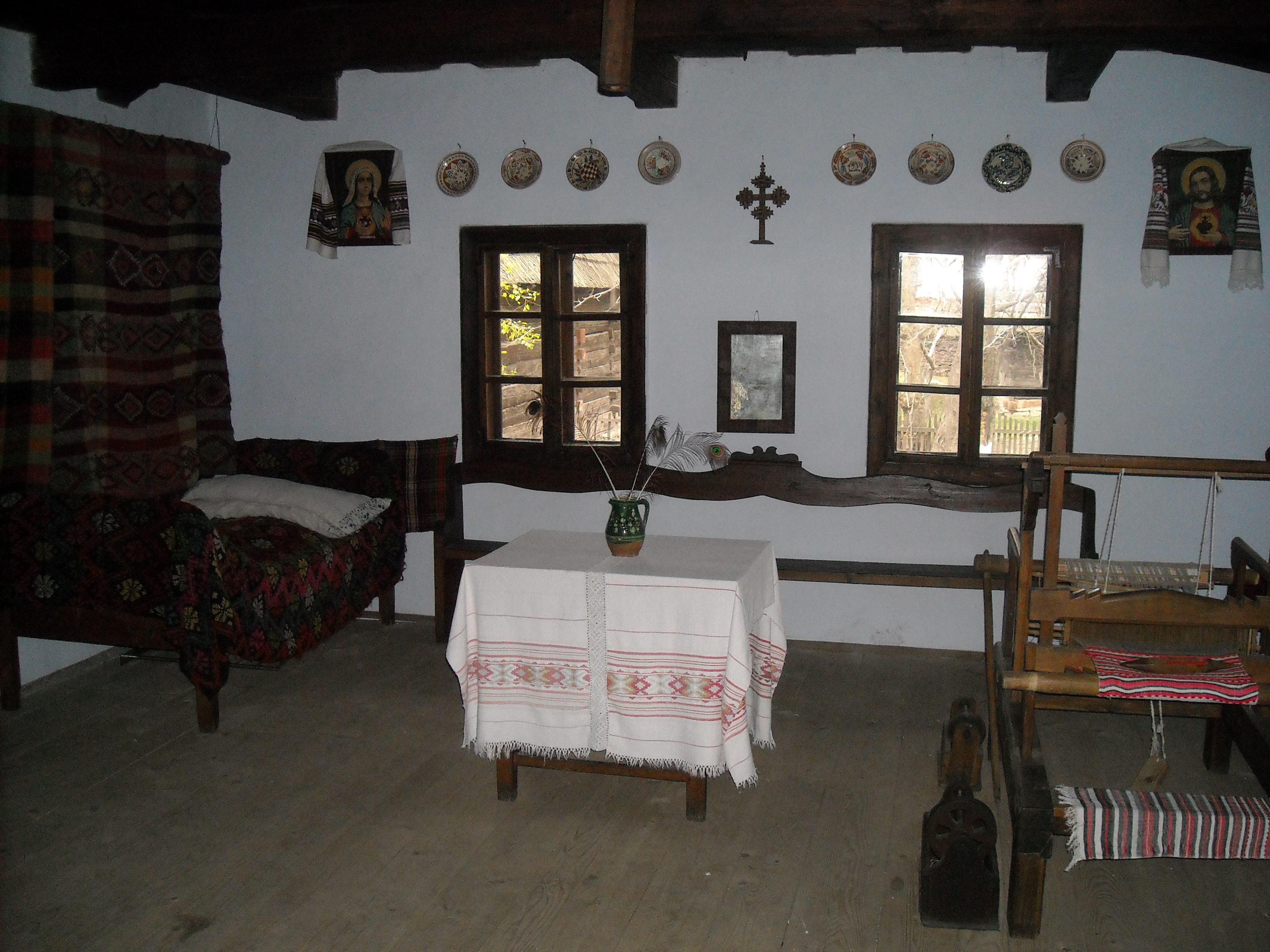 peasant house from Șanț in Village Museum, Bucharest